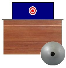 Poull Ball equipment